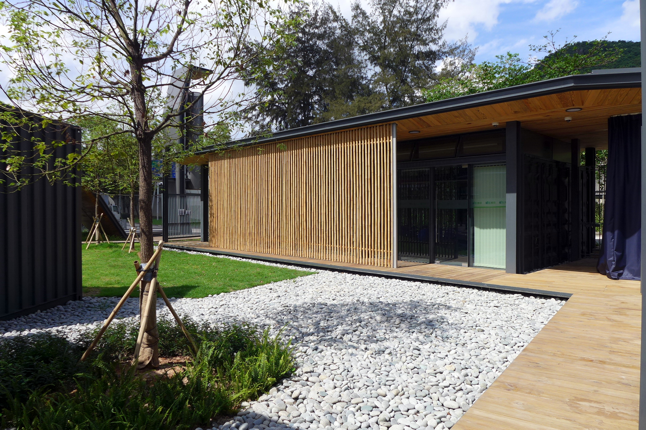 Sha Tin Community Green Station